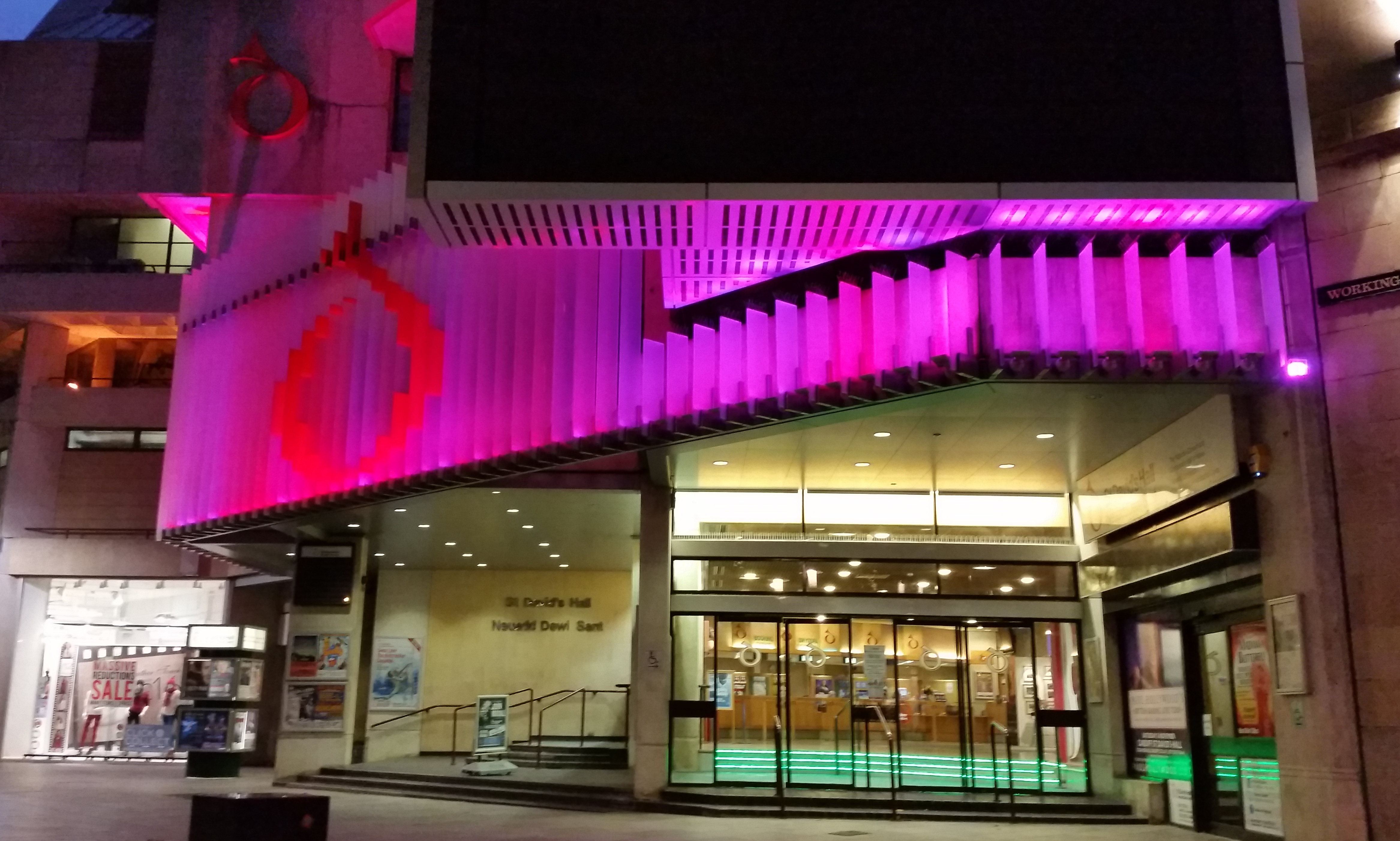 St David's Hall, Cardiff, illuminated by night.